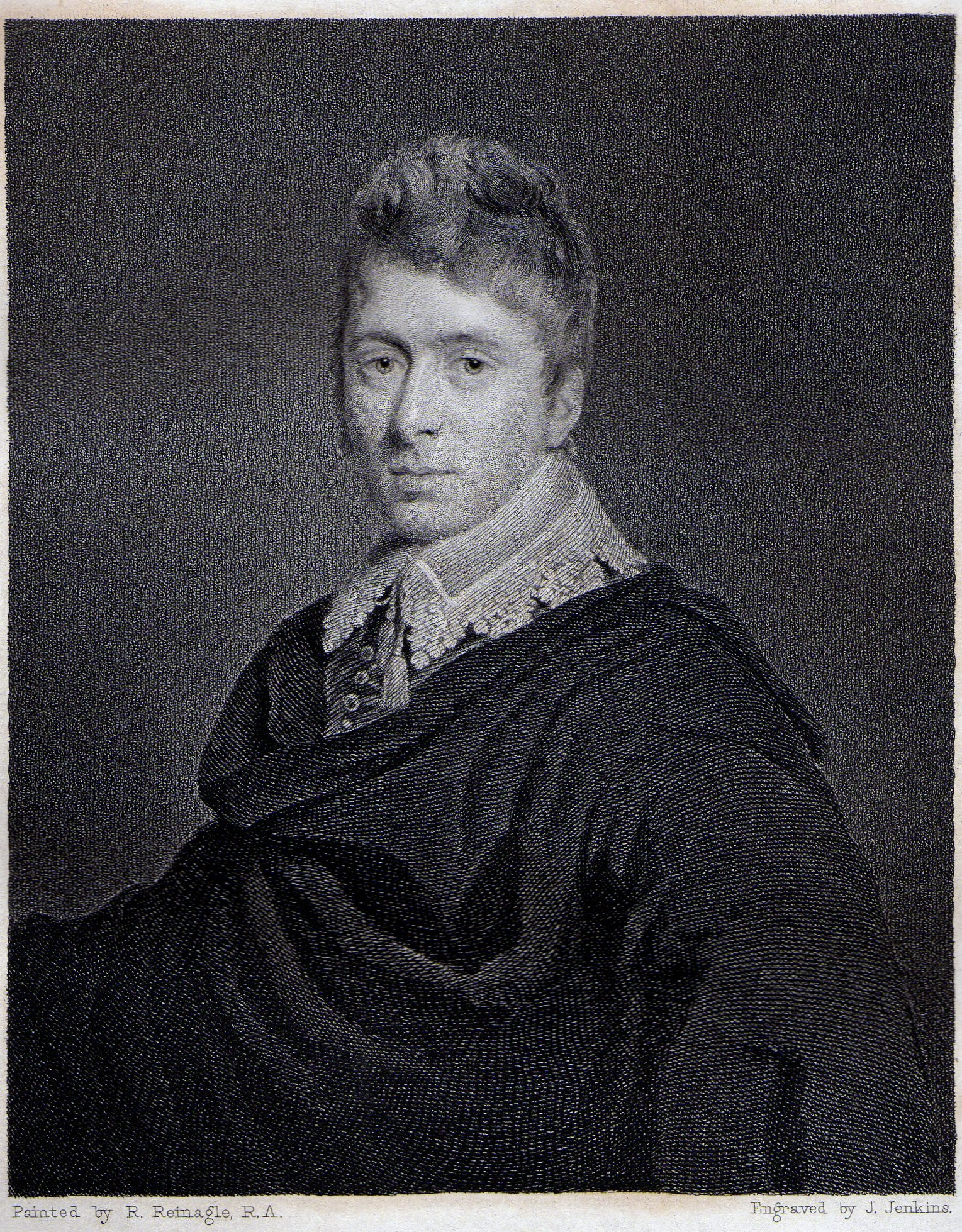 Engraving of Walter Burrell of Knepp Castle near West Grinstead, West Sussex, England. Published 1835 in The History, Antiquities and Topography of the County of Sussex by Thomas Walker Horsfield F.S.A.